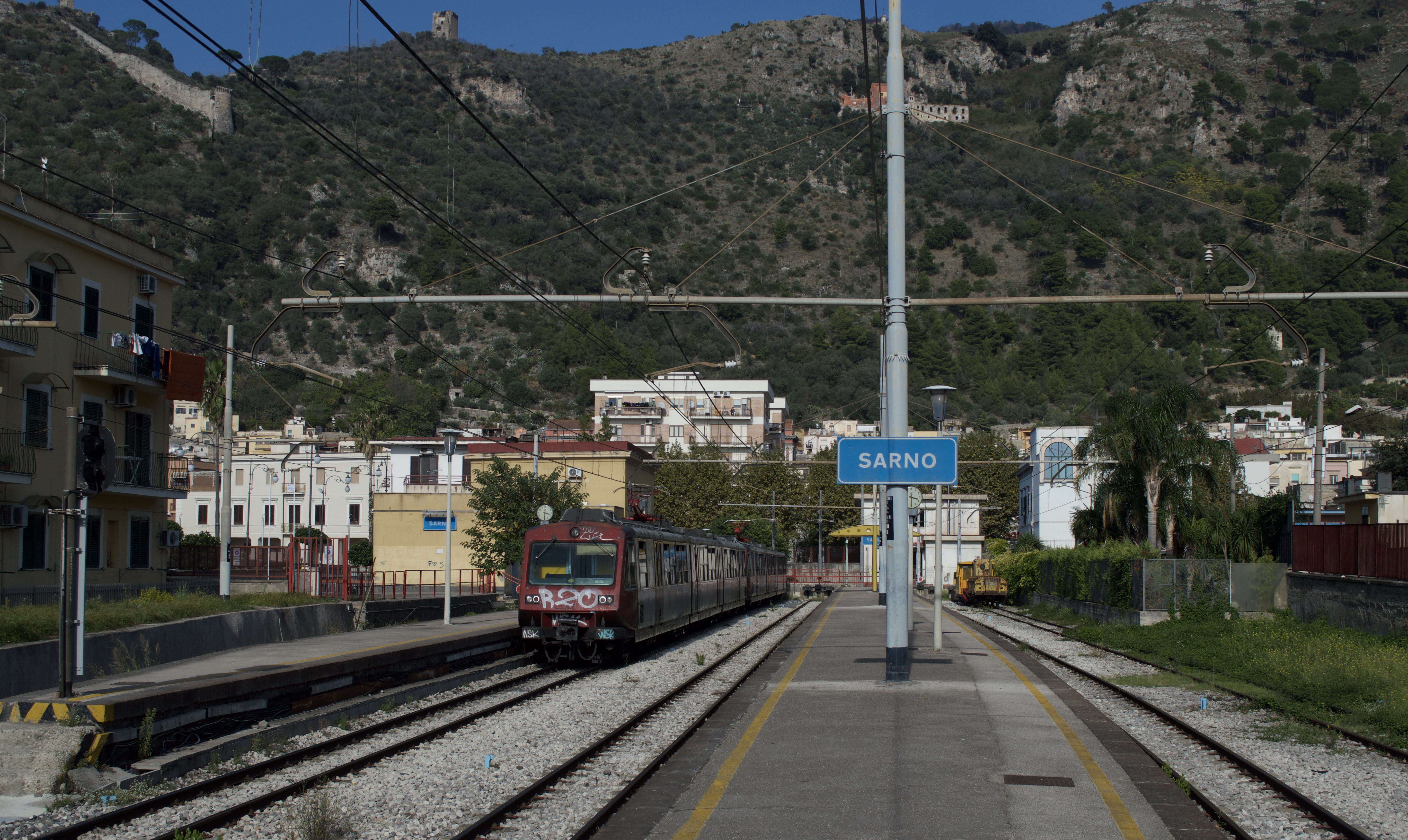 The 142km 950mm Circumvesuviana system from Napoli took two visits to cover and was successfully completed in October 2017. The final branch covered was from Sarno and covered just the one way as only a 15 minute walk from the Trenitalia mainline station. With superb weather conditions and backdrop of the hills behind, a pair of ETR units numbers 027 and 054 form train 648, 15:49 Sarno to Napoli Porta Nolana. Circumvesuviana (CV) merged with other private operators in the Napoli area in 2013 to form Ente Autonomo Volturno (EAV).